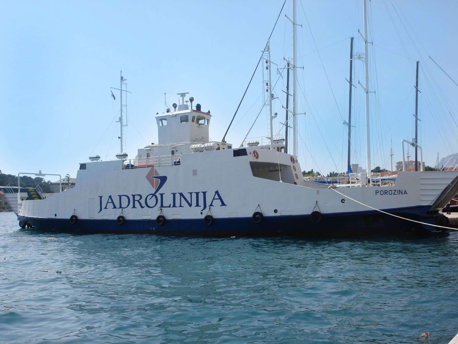 Ferry Porozina in Makarska IMO number: 7126346 Callsign: 9A2459